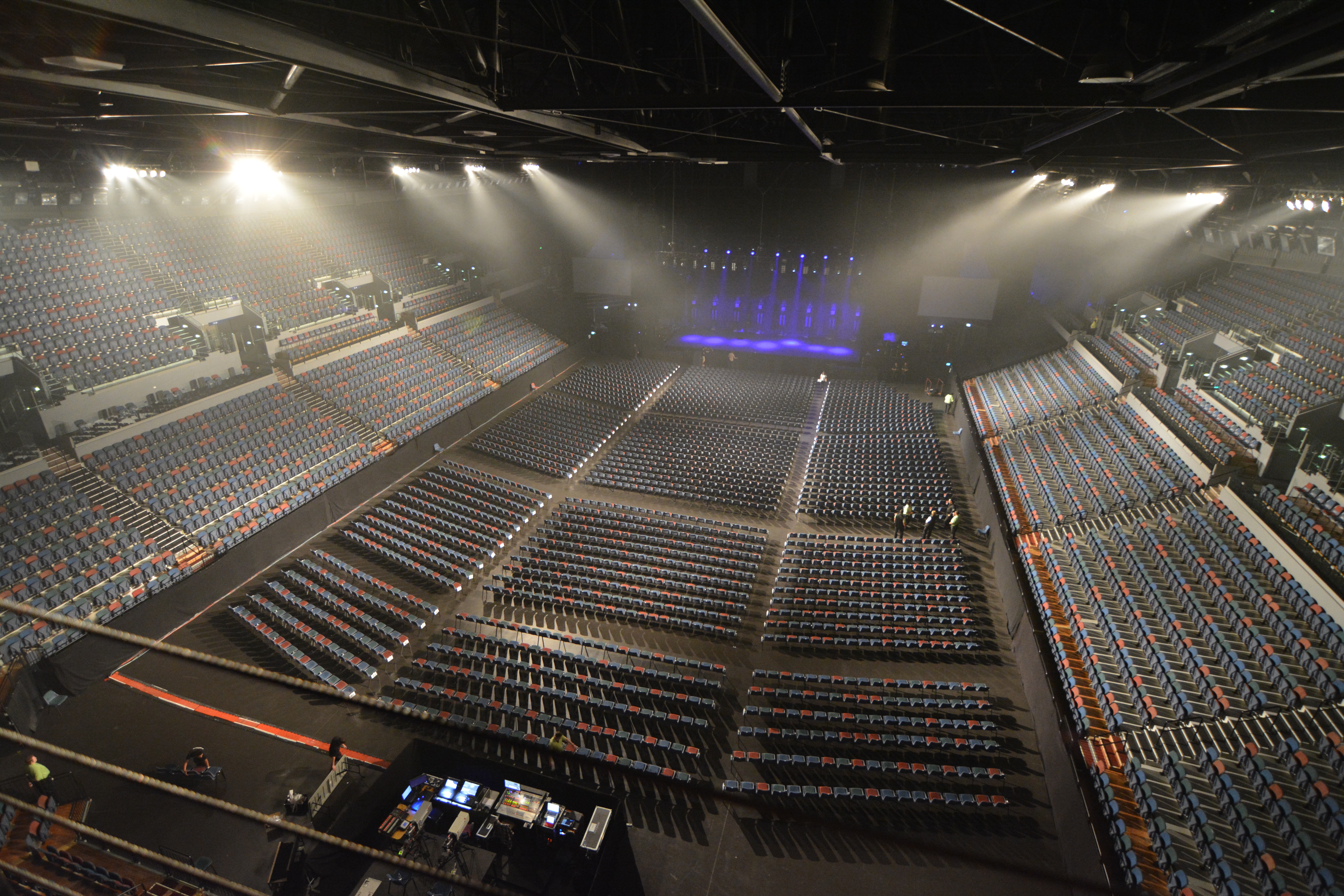 Full end stage seated mode